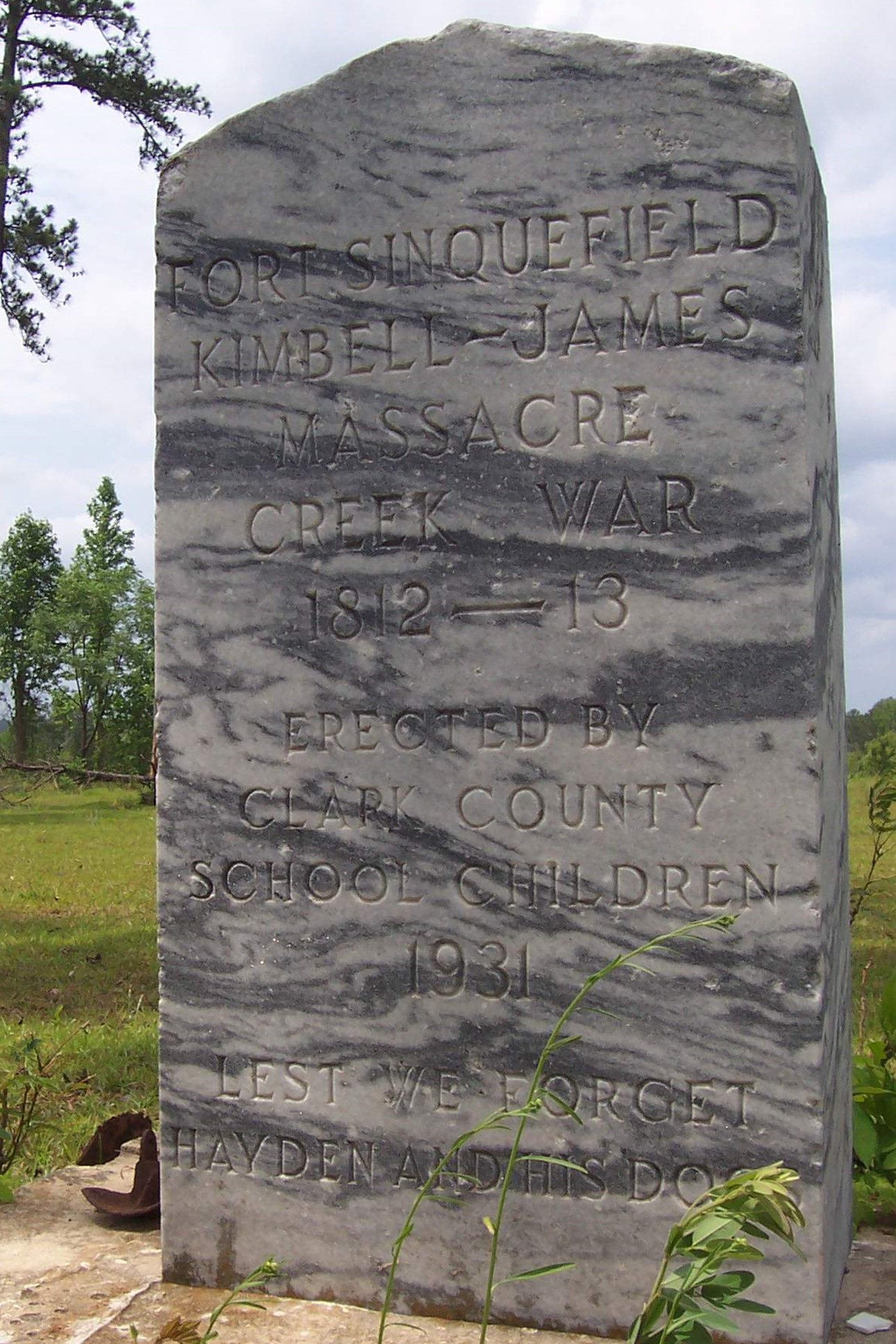 Fort Sinquefield Site marker near Whatley, Clarke County, Alabama. The district is on the National Register of Historic Places.